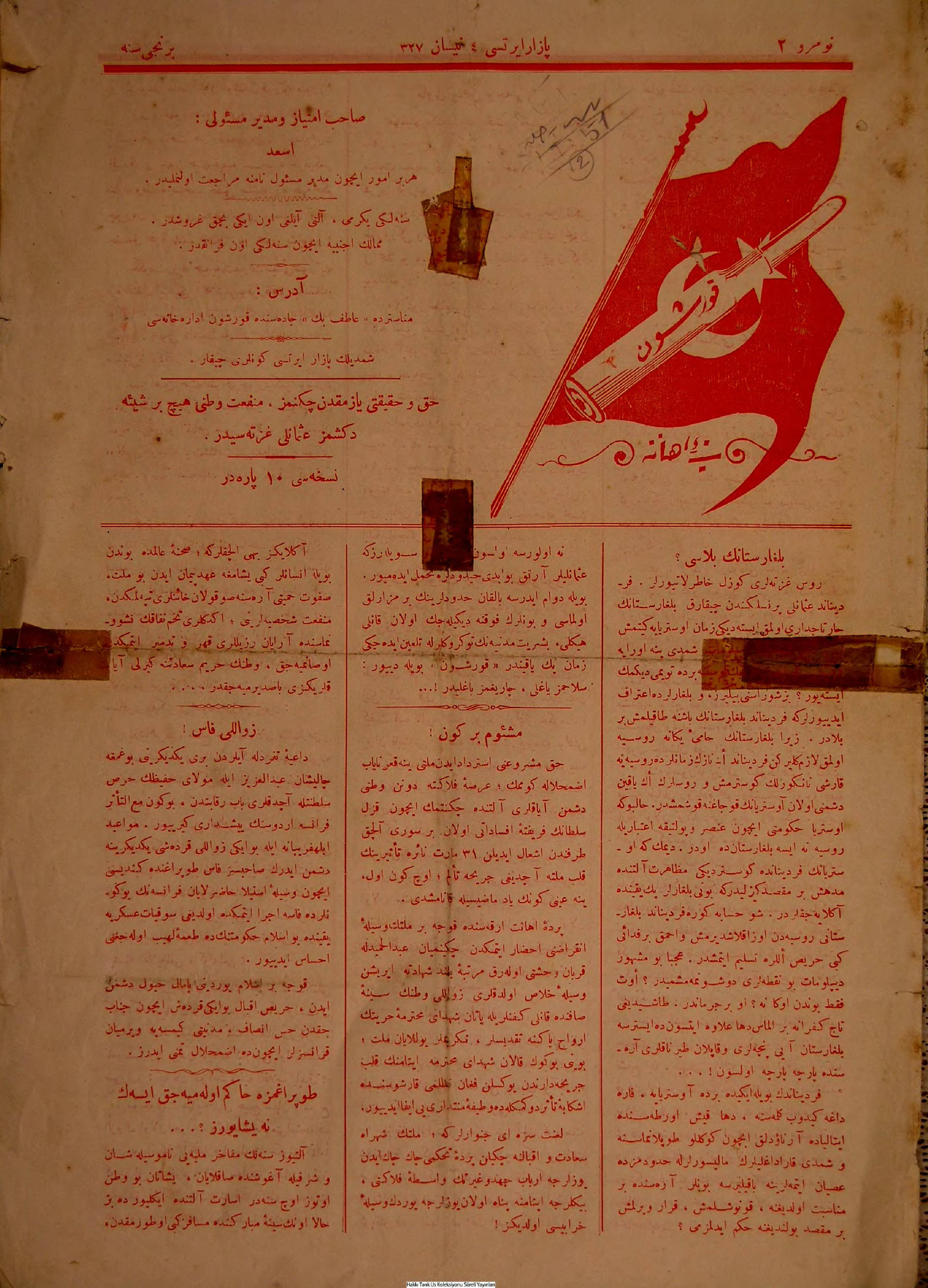 Kurşun 1911-04-17